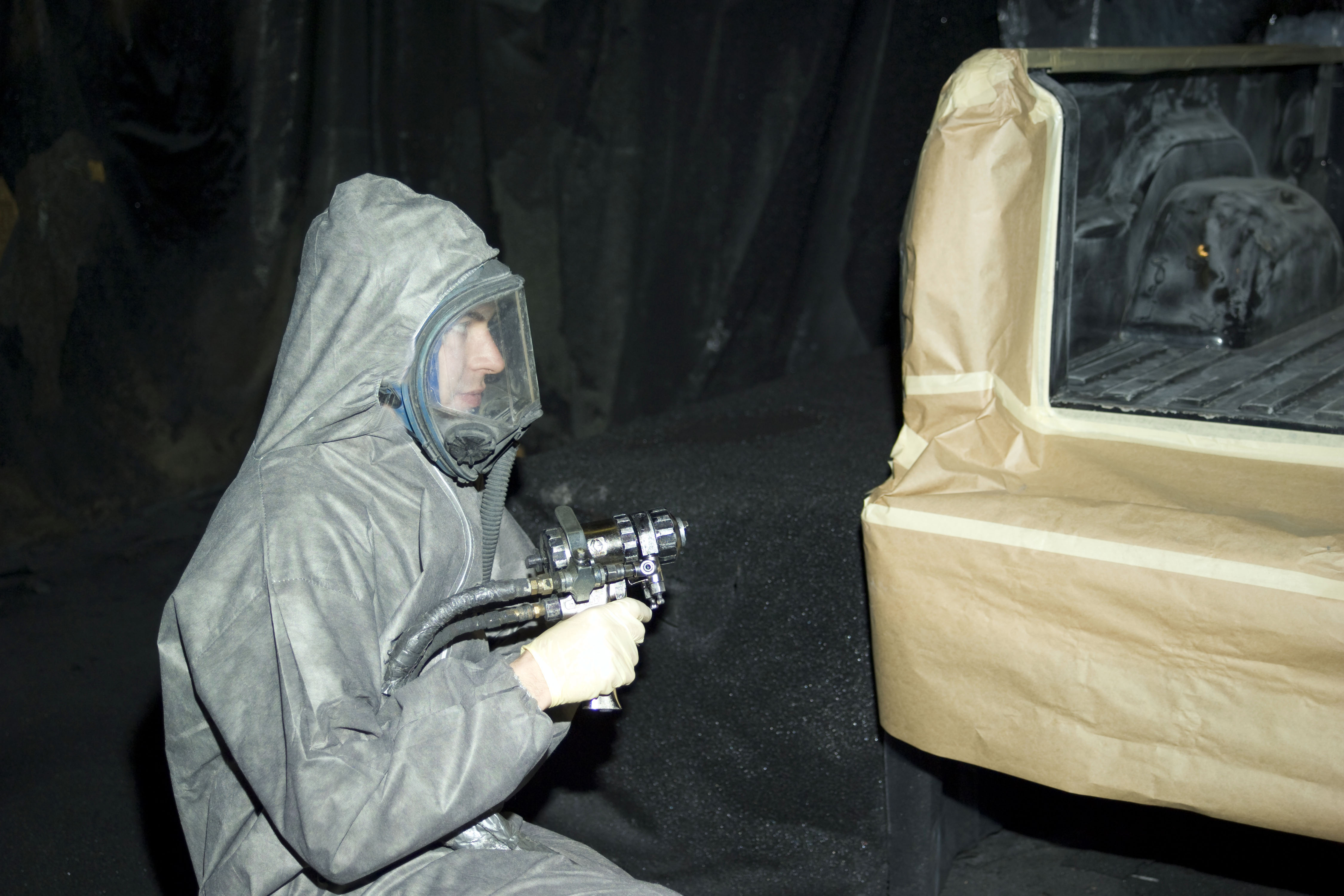 A worker using personal protective equipment (PPE) needed for spray-on truck bed liners.